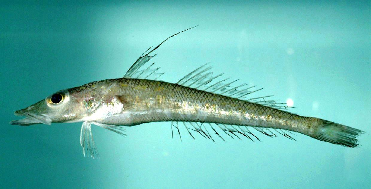 Duckbill flathead or longnose duckbill ( Bembrops anatirostris ). Gulf of Mexico.